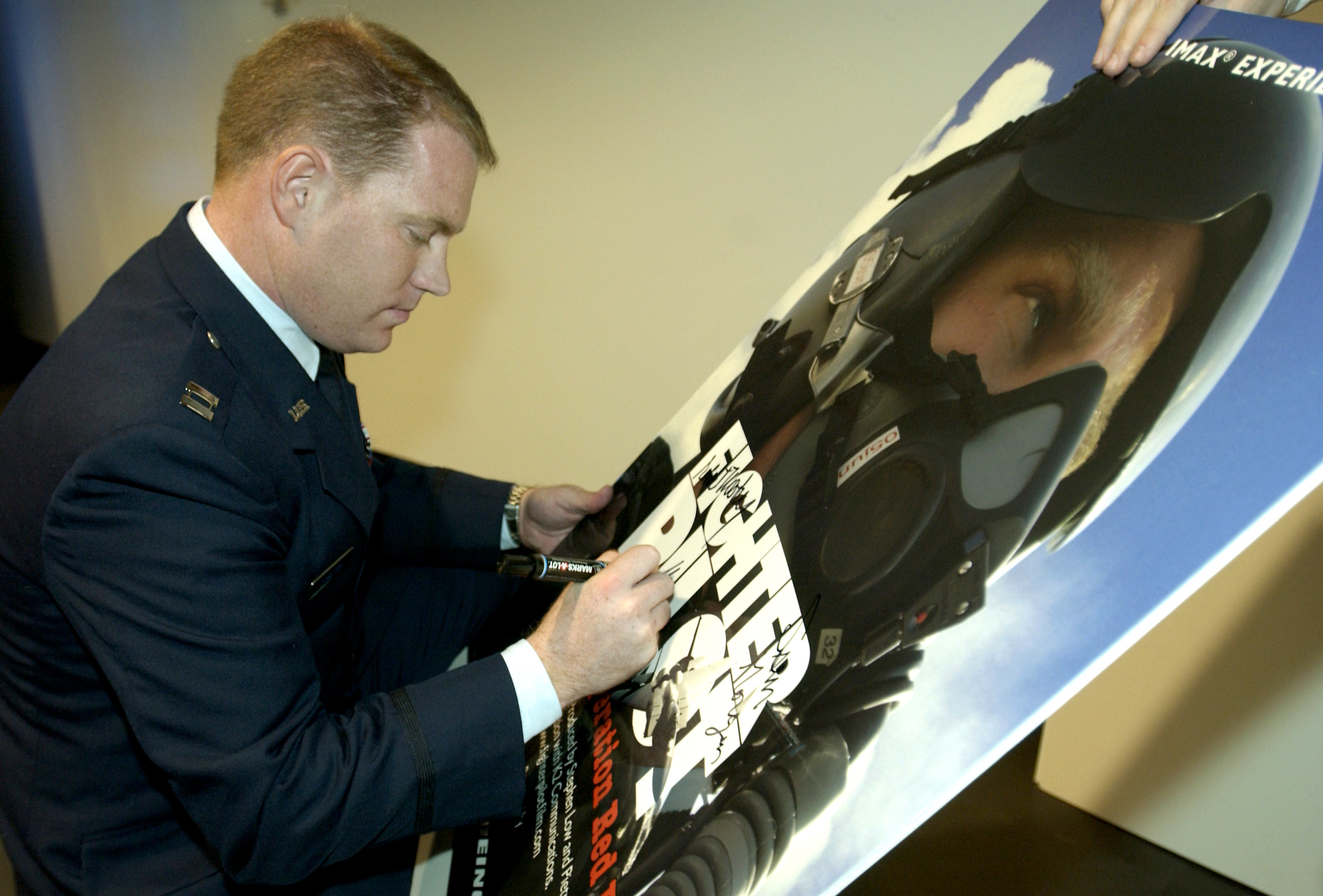 Captain John Stratton signs a movie poster at the premier of the IMAX film "Fighter Pilot: Operation Red Flag."